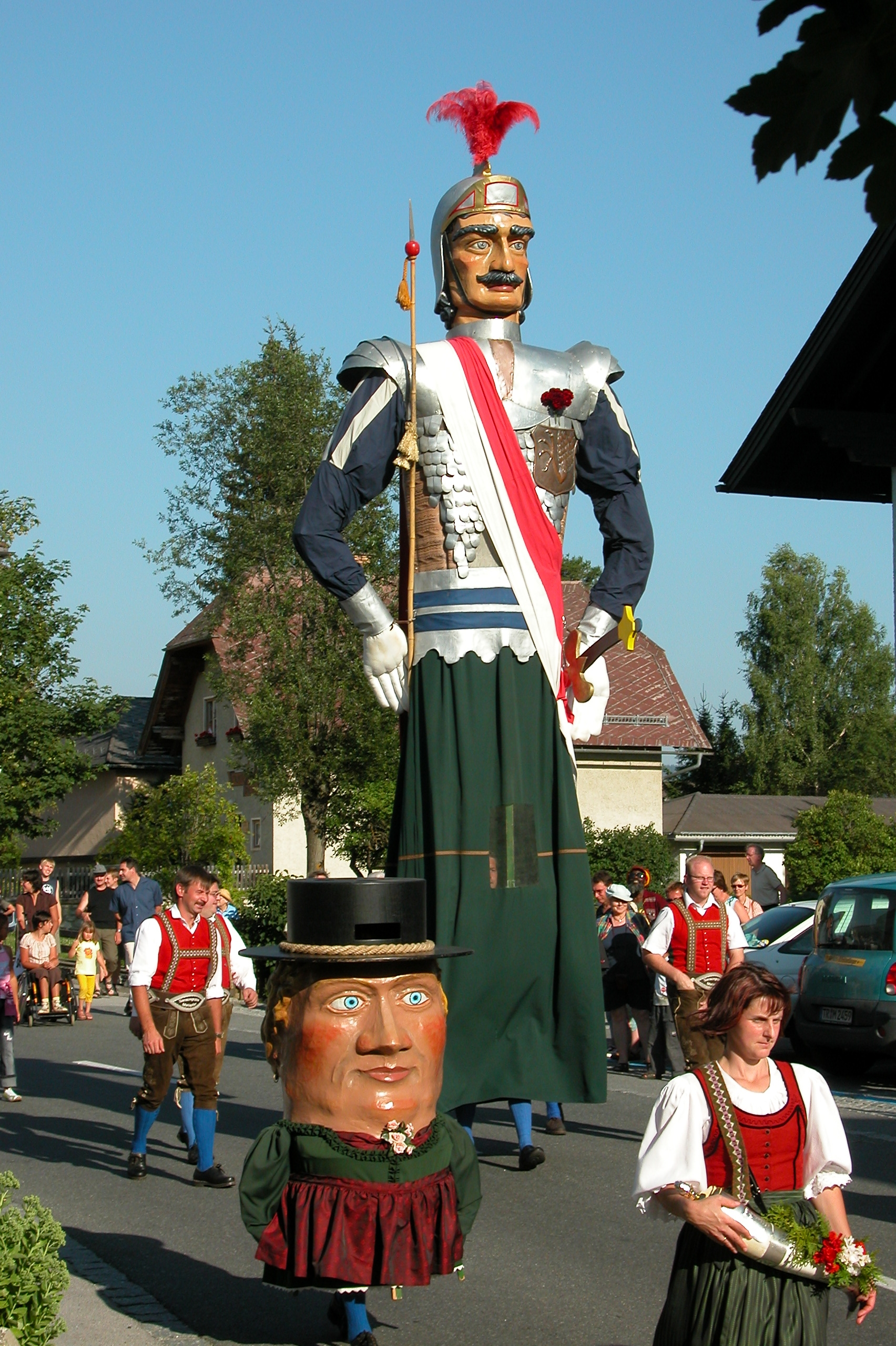 Samson from Unternberg